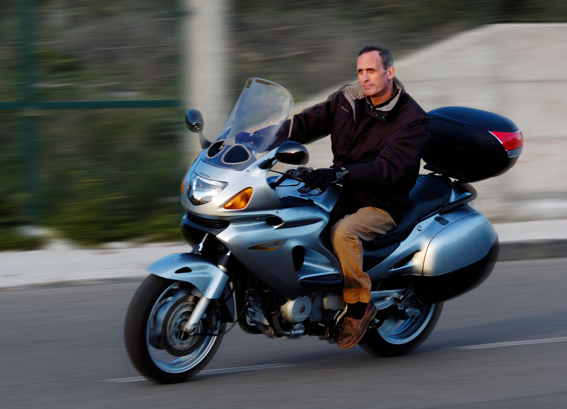 Honda Deauville NT650V